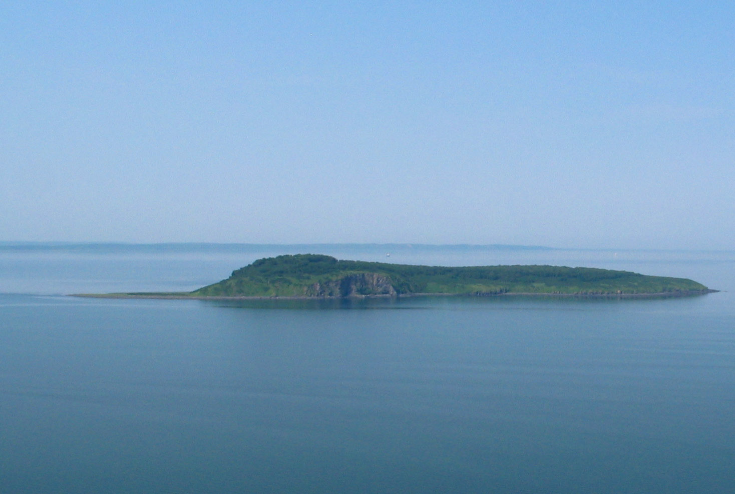 Mandzhur island in Uka bay. Northern Kamchatka, pacific shore.